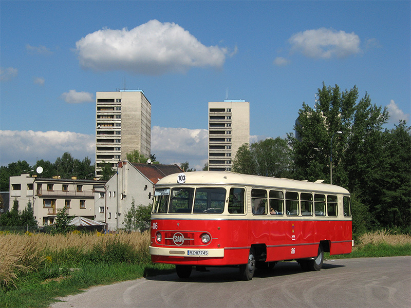 Old bus San H01B (#86) built in 1959, MPK Krakow company, Poland.